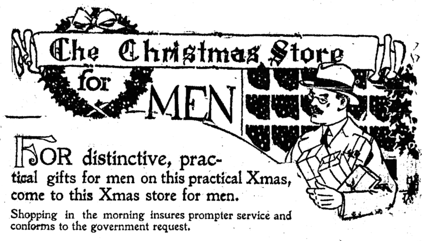 Advertising image of a man shopping for Christmas presents, with a headline and a message, 1918